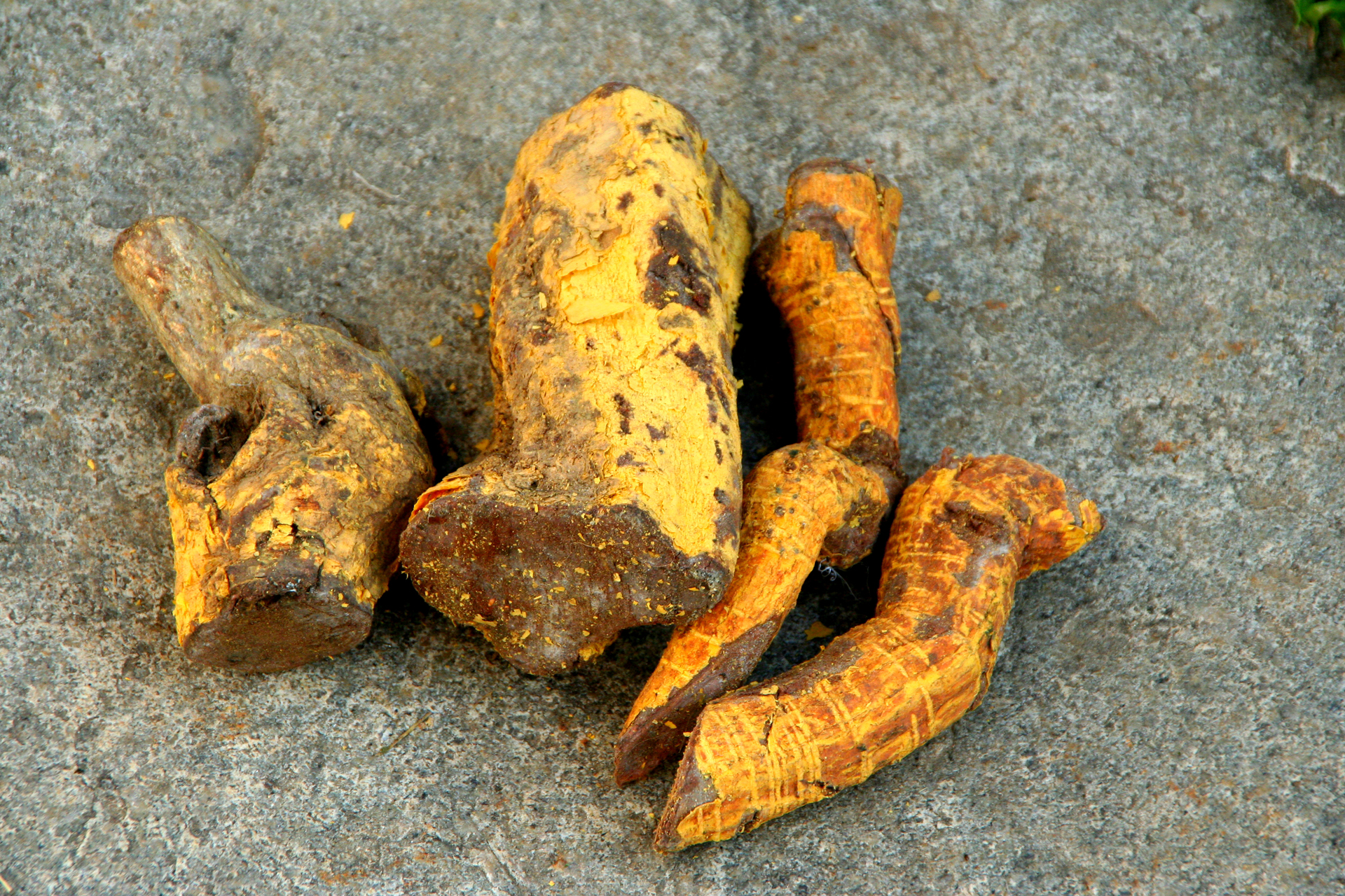 dried root of Salacia reticulata